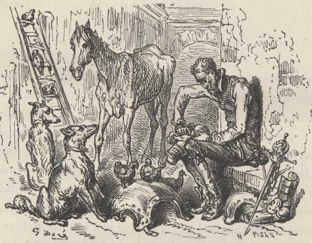 CHAPTER I WHICH TREATS OF THE CHARACTER AND PURSUITS OF THE FAMOUS GENTLEMAN DON QUIXOTE OF LA MANCHA